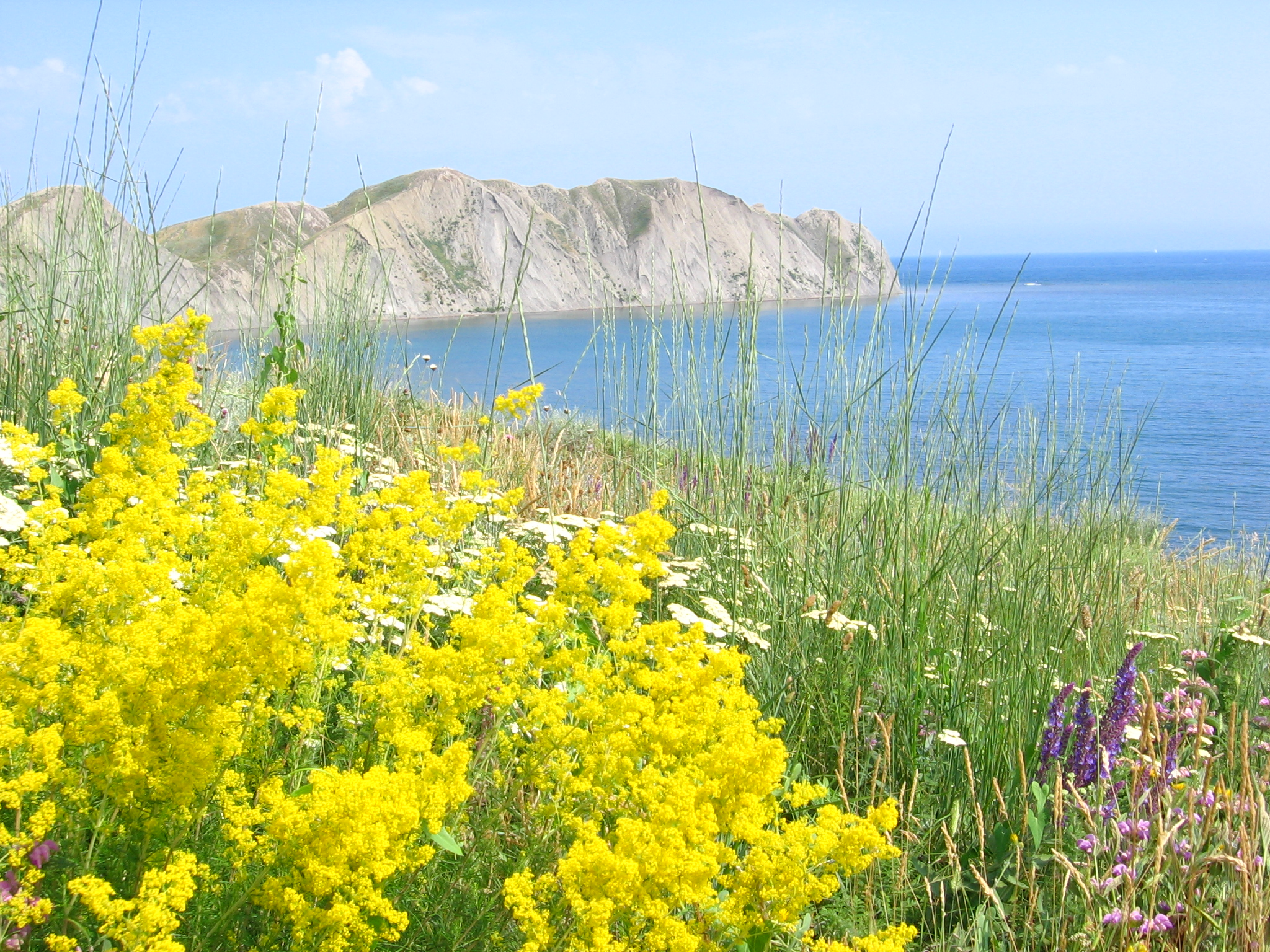 Chameleon